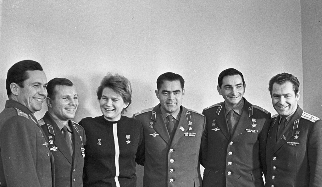 “The USSR pilot-cosmonauts”. Pavel Popovich, Yuri Gagarin, Valentina Tereshkova, Andrian Nikolayev, Valery Bykovsky and German Titov.